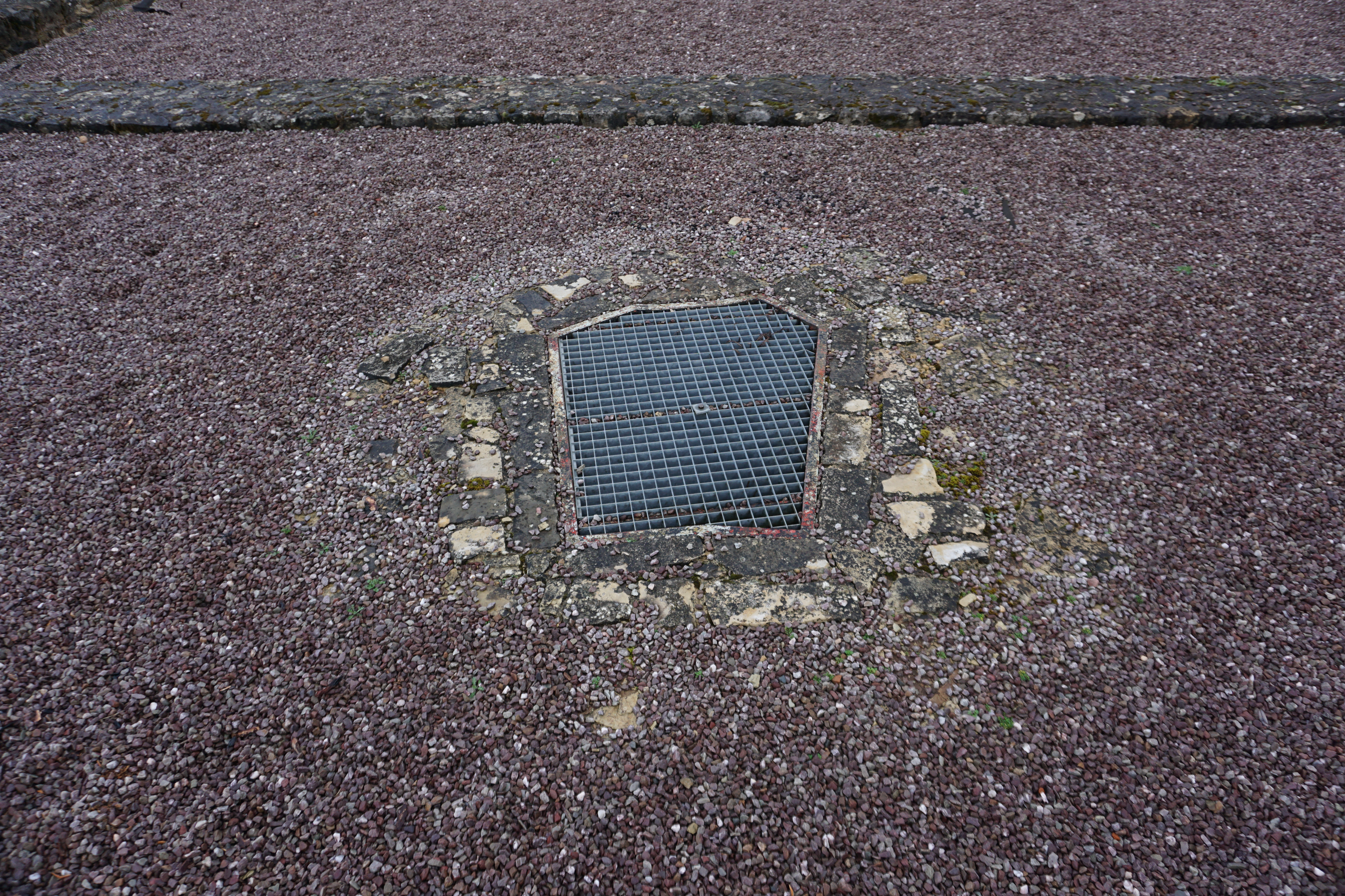 Two meter deep shaft in the west wing of the Roman Villa of Reinheim.